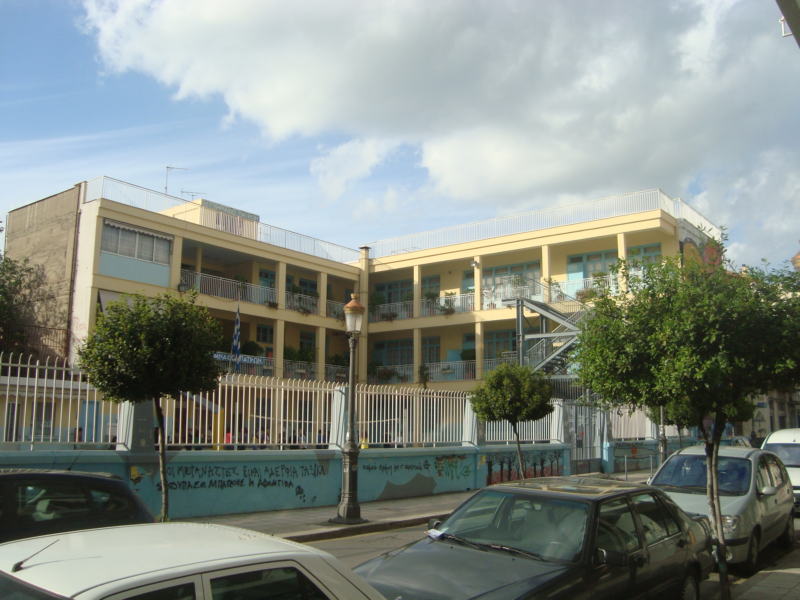 B gymnasioum (school ) Patras